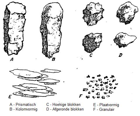 soil structure (Dutch version)